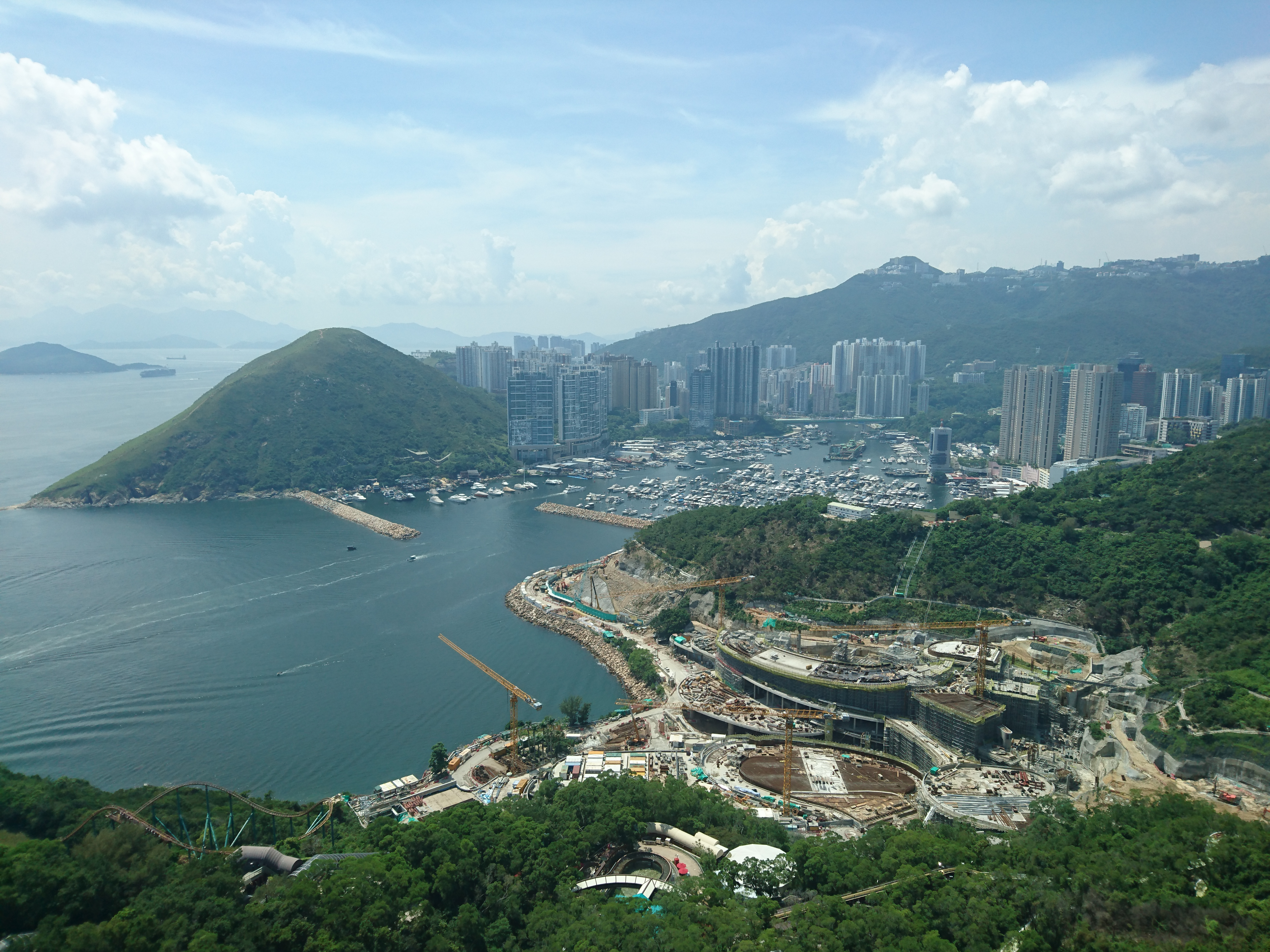 Shum Wan & Tai Shue Wan viewed from Ocean Park